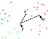 Calculation of the border ratio. The illustration from the software description E. M. Mirkes, KNN and Potential Energy: applet. University of Leicester, 2011. Published under Attribution 3.0 Unported (CC BY 3.0) licence.